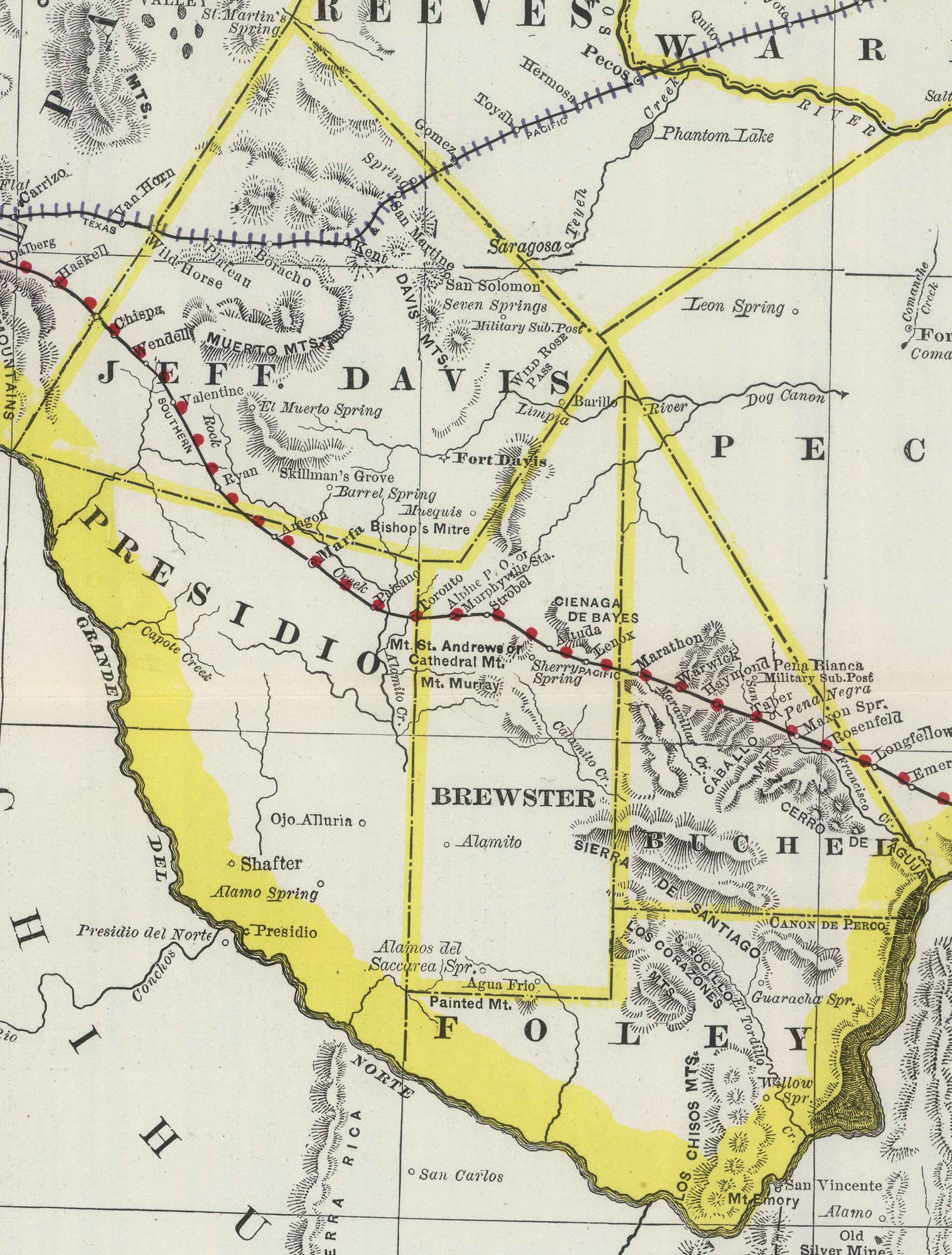 Map of Presidio County, Texas and the counties of Brewster, Buchel, Foley, and Jeff Davis created from Presidio in 1887. This map conforms with the boundary descriptions of the legislation creating the new counties.